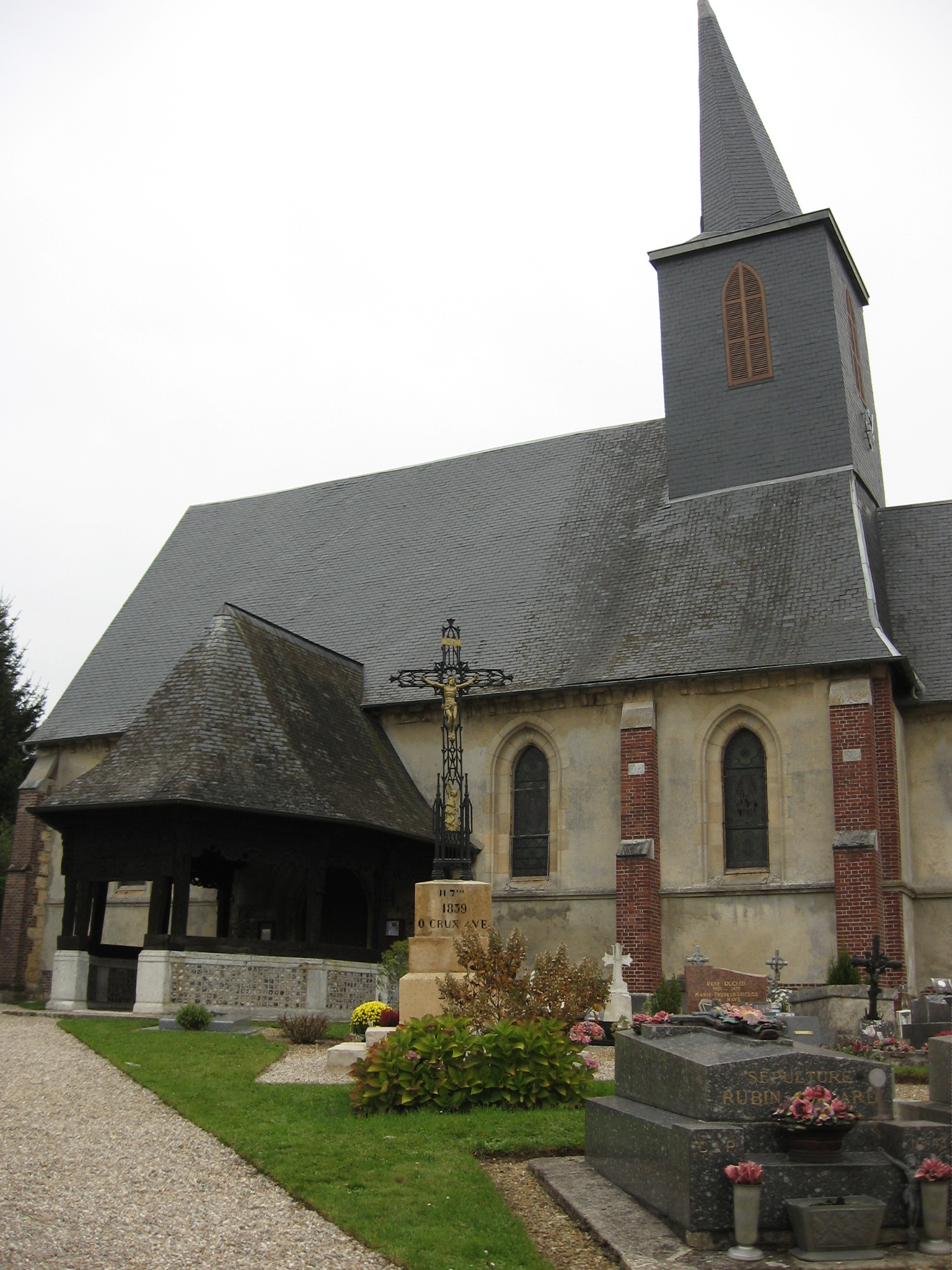 Church of Bosc-Bordel in the département Seine-Maritime in the region Haute-Normandie in France.